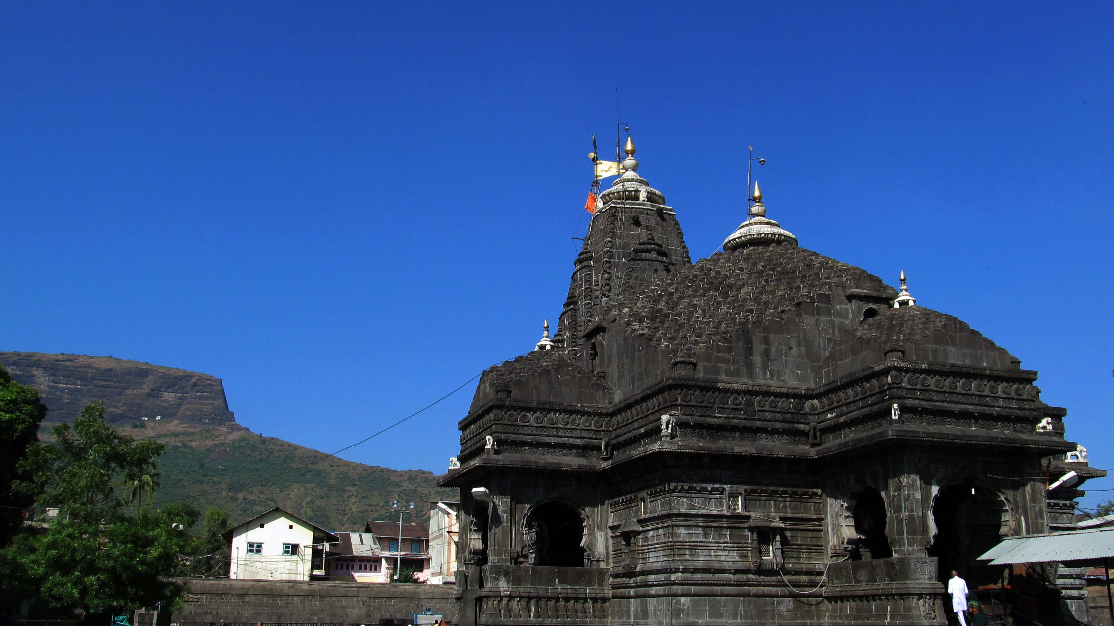 Trimbak